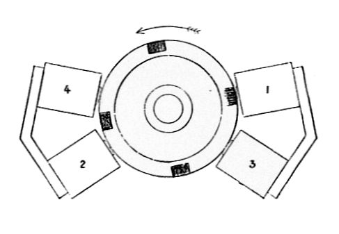 Mouse mill motor, rotor and coils (Rankin Kennedy, Electrical Installations, Vol V, 1903).jpg